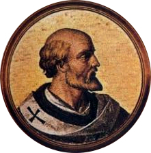 Portrait of Pope Sylvester II in the Basilica of Saint Paul Outside the Walls, Rome